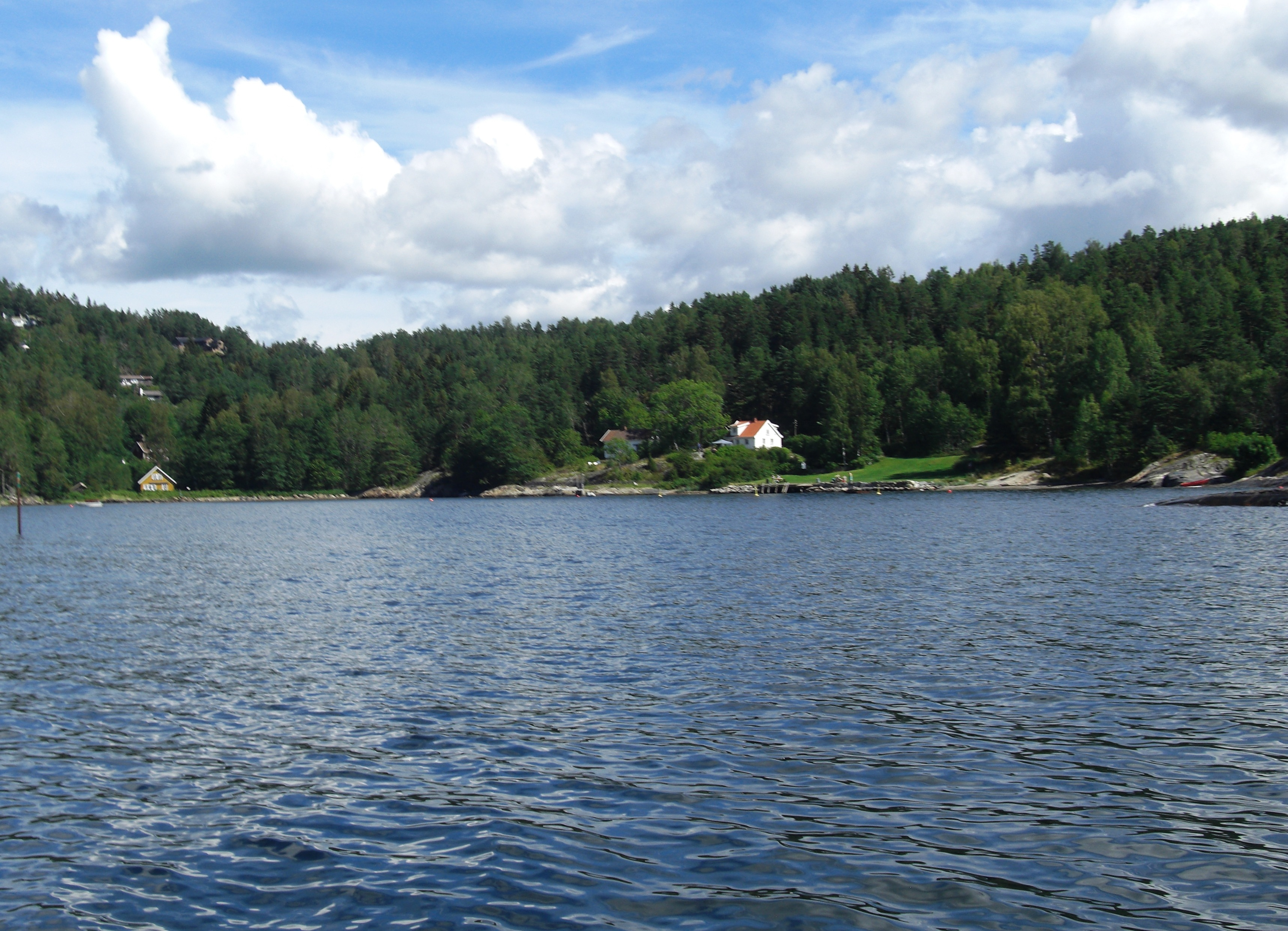 Emmerstadbukta